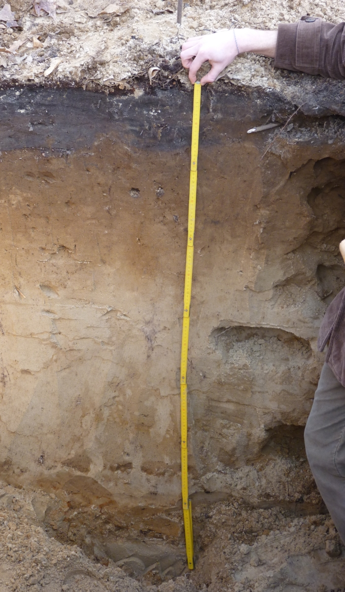 Berlin Grunewald soil profile.